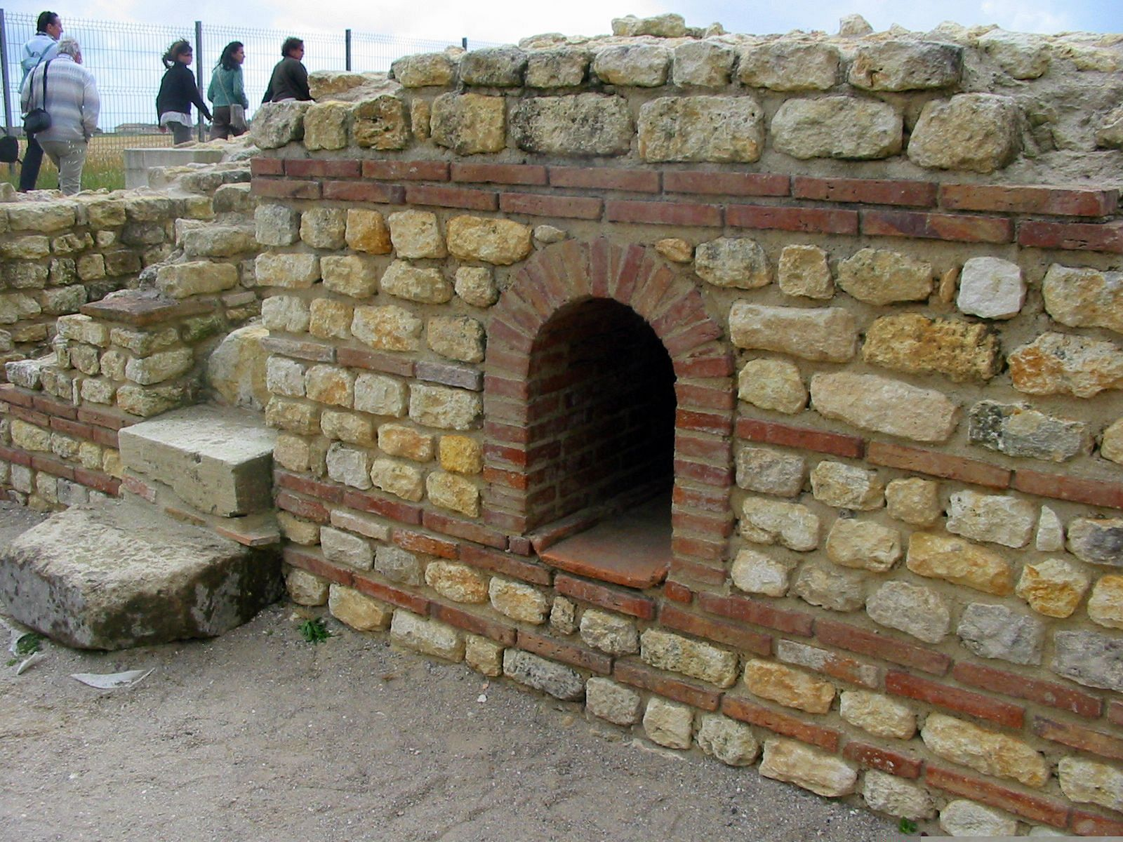 Ruins of a Gallo-roman city at Barzan (Novioregum?), Charente-Maritime, SW France. Oven for the tepidarium.